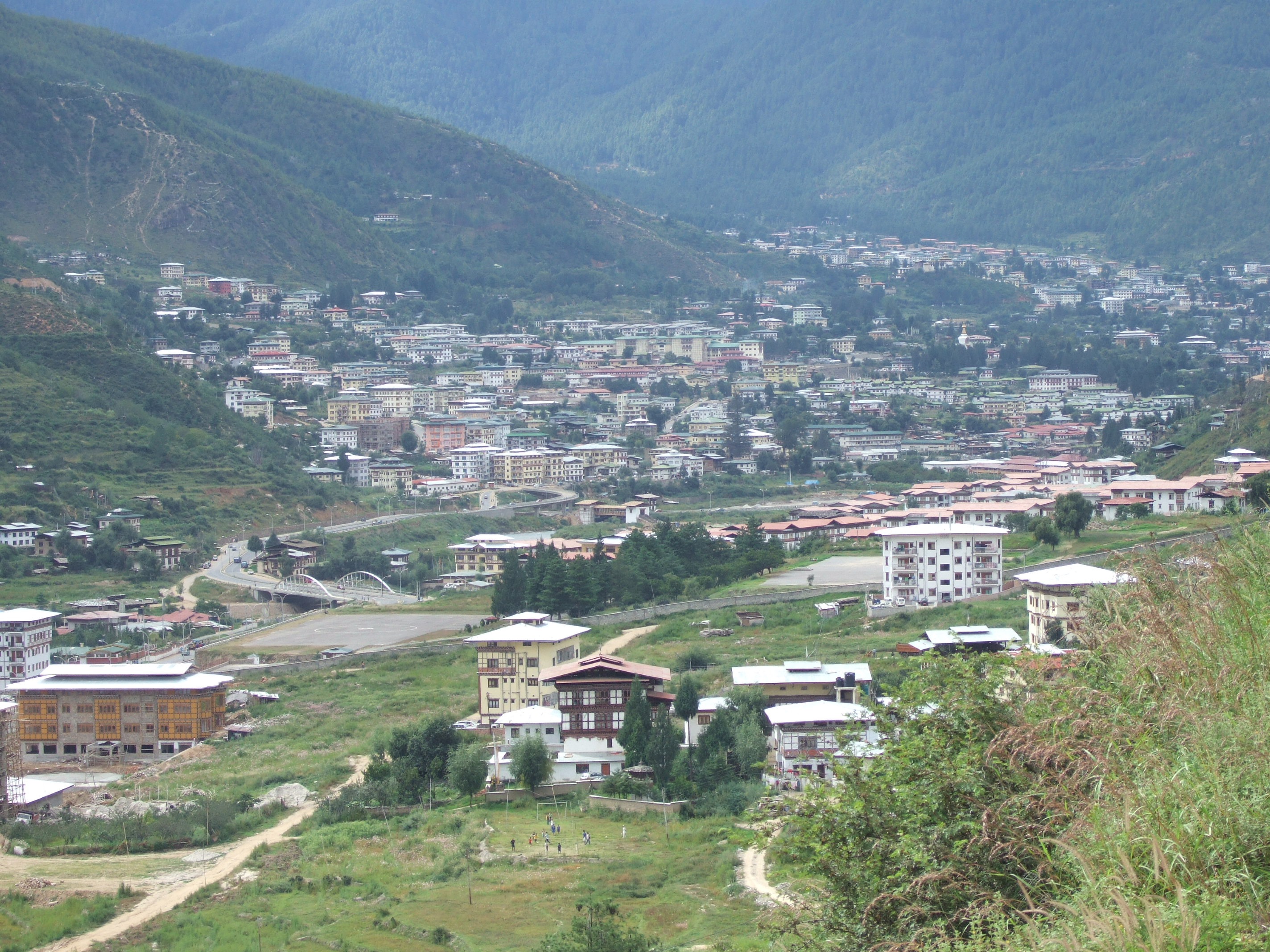 A view of Thimphu - taken from the south of the city from road on the east side of the valley. 7 Sept. 2008